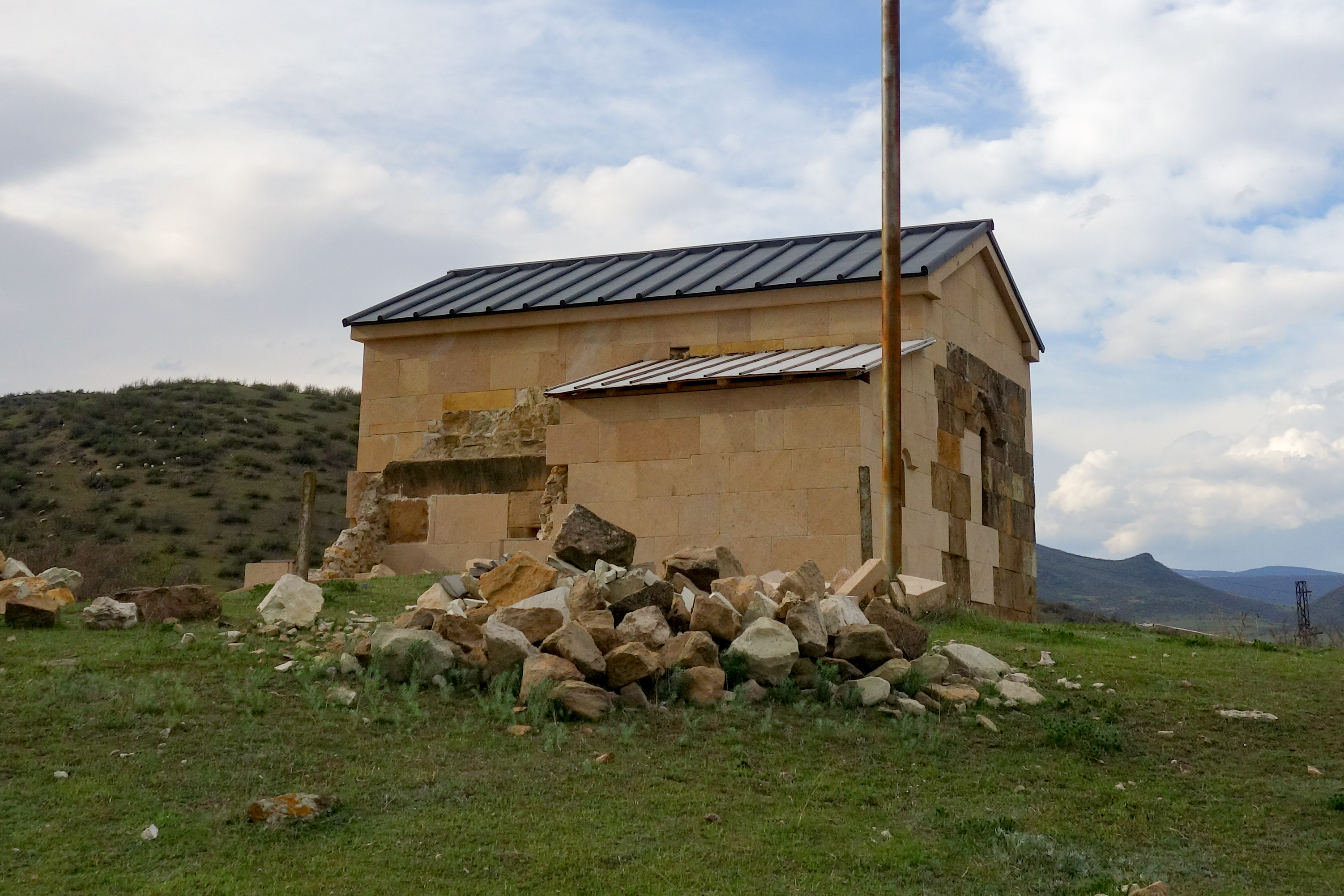 Akvaneba Church (VI-VII cc.), Kvemo Kartli, Georgia